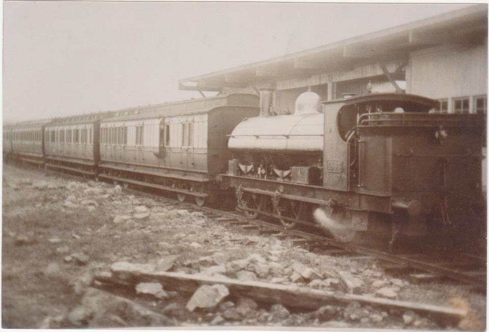 Train waiting to depart Hakin Docks Station with passengers arrived from New York on the City of Rome, 1889